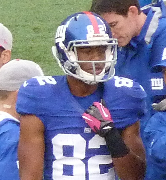 NY Giants sideline in a 2012 game against the Browns.